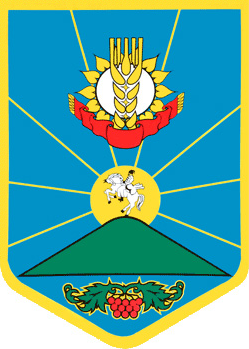 Coat of arms of Sofiyivskyi raion, Dnipropetrovsk Oblast.